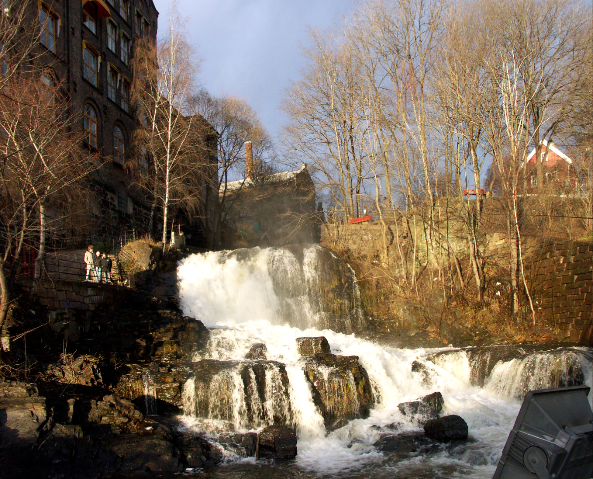 Våghalsen waterfall in river Akerselva, Oslo.